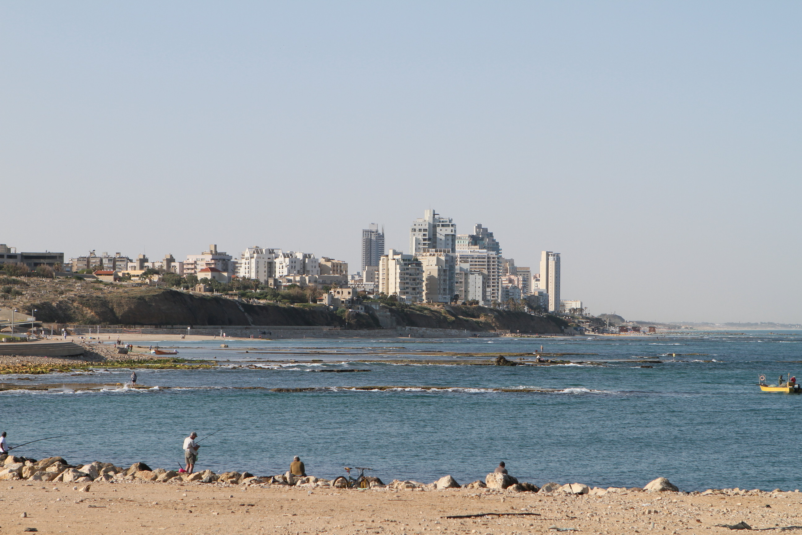 Bat Yam in Israel